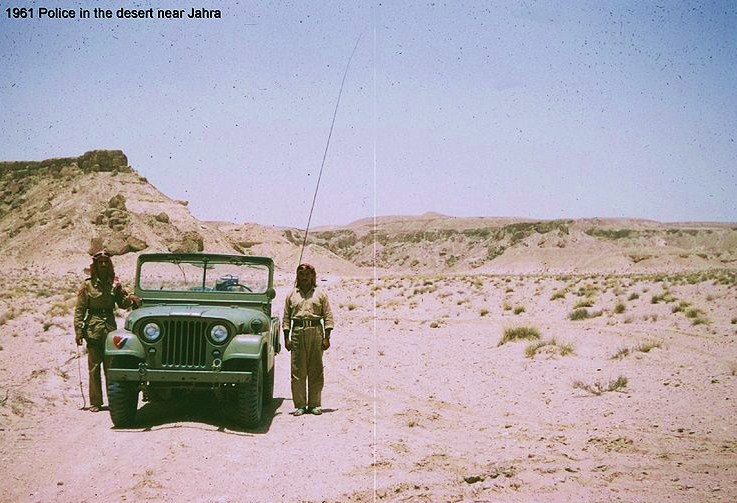 Al Jahra desert police Kuwait